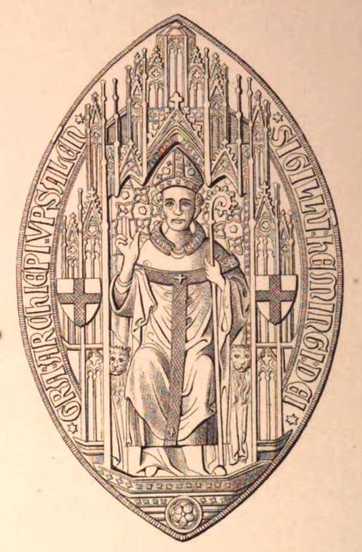 The seal of swedish Archbishop Heming Nilsson